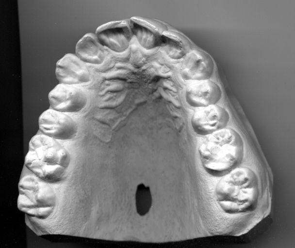 A retainer cast of a human upper jaw (mine), and shows the incisors, canines, premolars, and 2 of the 3 molars.